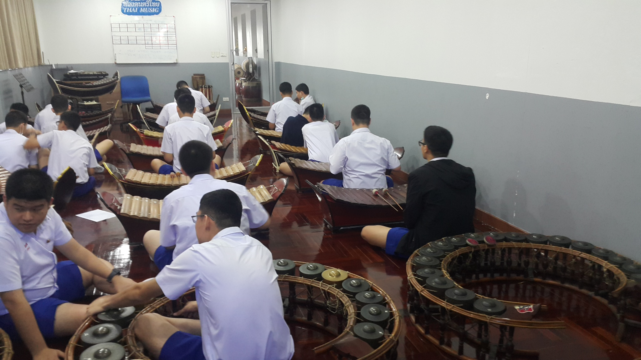 A Thai music classroom in a high school